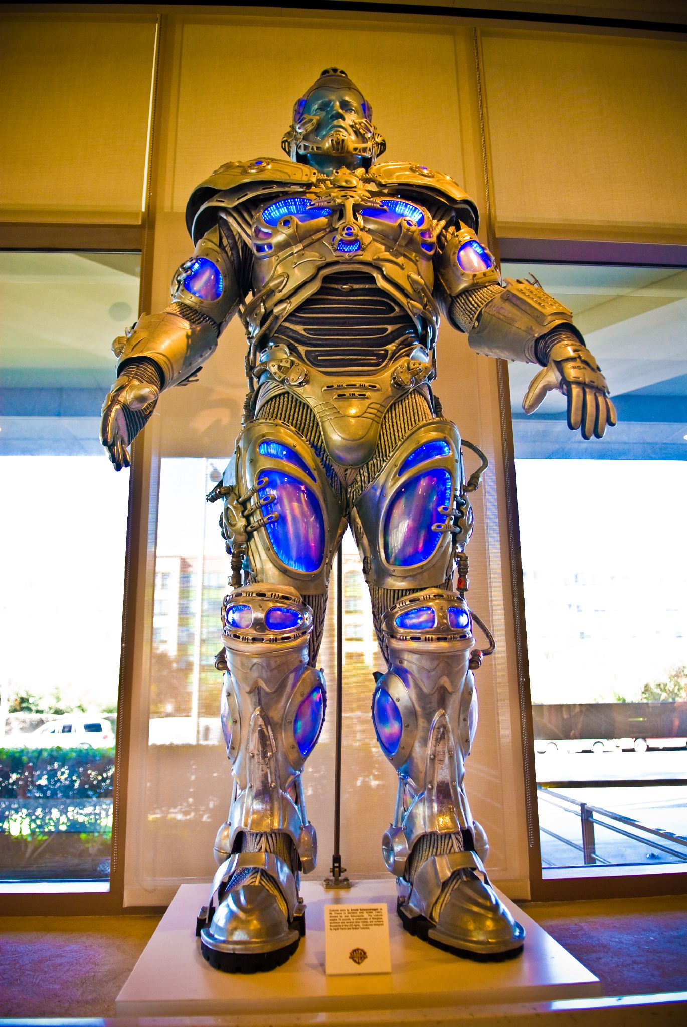 Costume from Arnold Schwarzenegger in the film Batman & Robin released in 1997